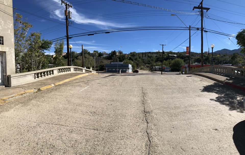 Historic Cordova Bridge built in 1918 in Miami, Az.